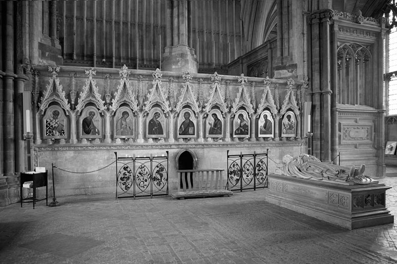 Fedorovs icons / iconostasis in the retroquire of Winchester Cathedral C20th. Author: Antony McCallum